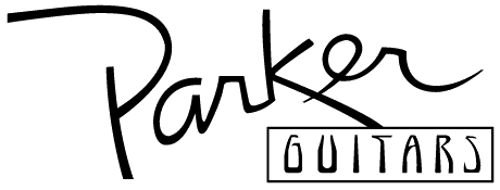 Logo of Parker Guitars